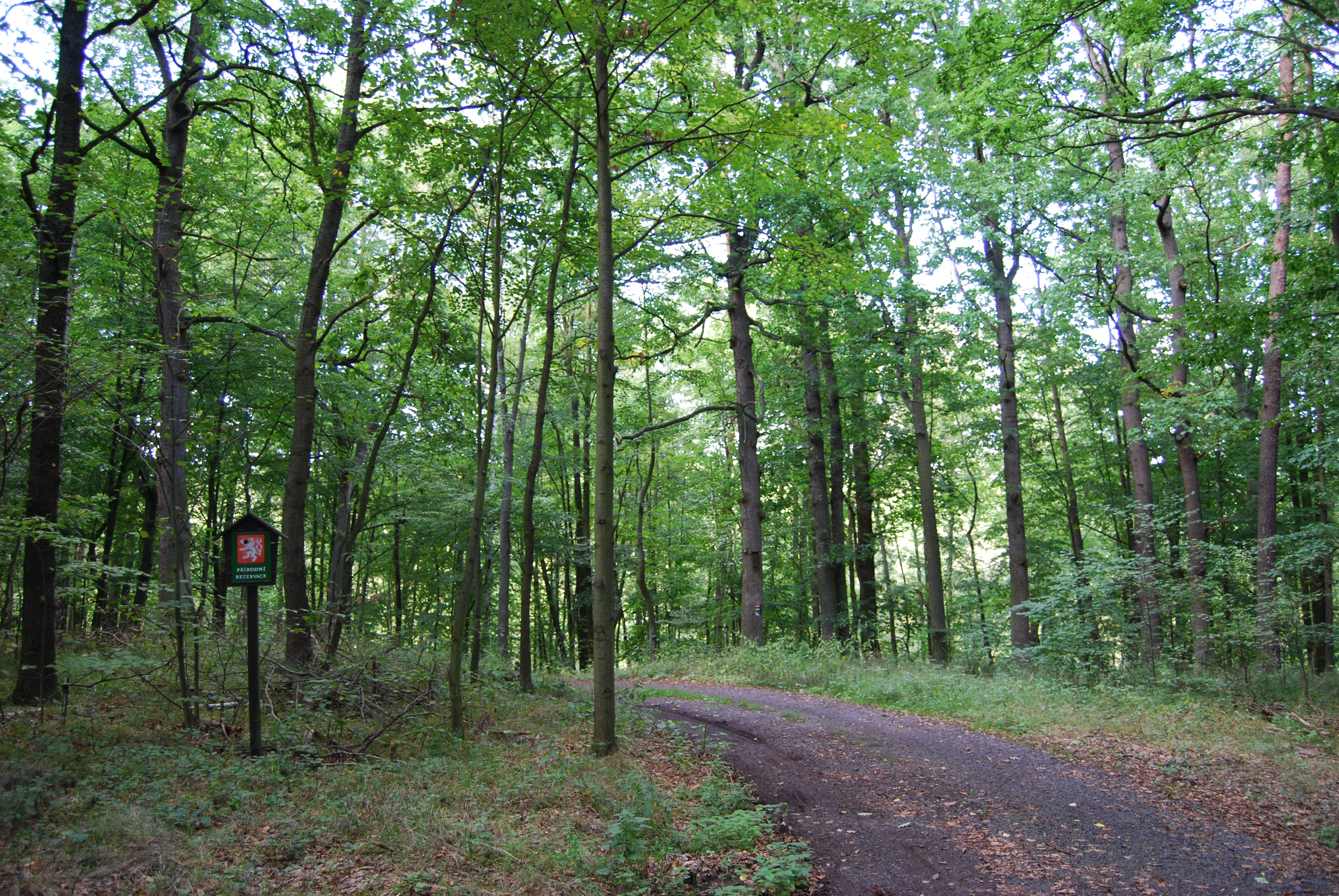 Nature reserve Žlíbky u Vráže, in Písek District. Czech Republic